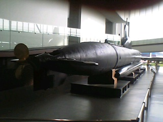 Special purpose submarine "Kairyu" in Yamato Museum